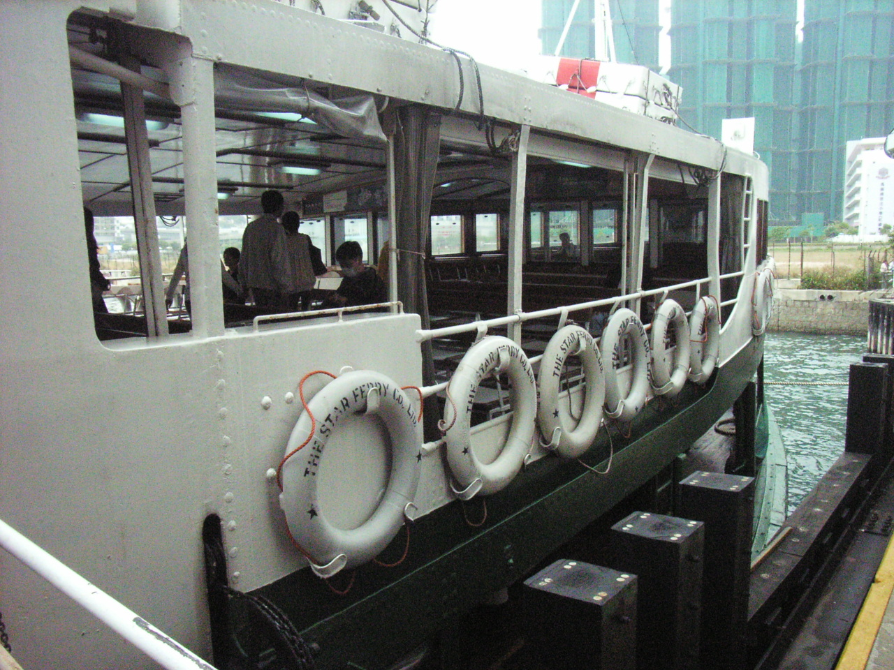 紅磡碼頭 (Hung Hom Ferry Piers)，紅磡渡輪碼頭，是zh:香港zh:九龍城區的一個zh:渡輪zh:碼頭。 Photo created by User:HungBEER.